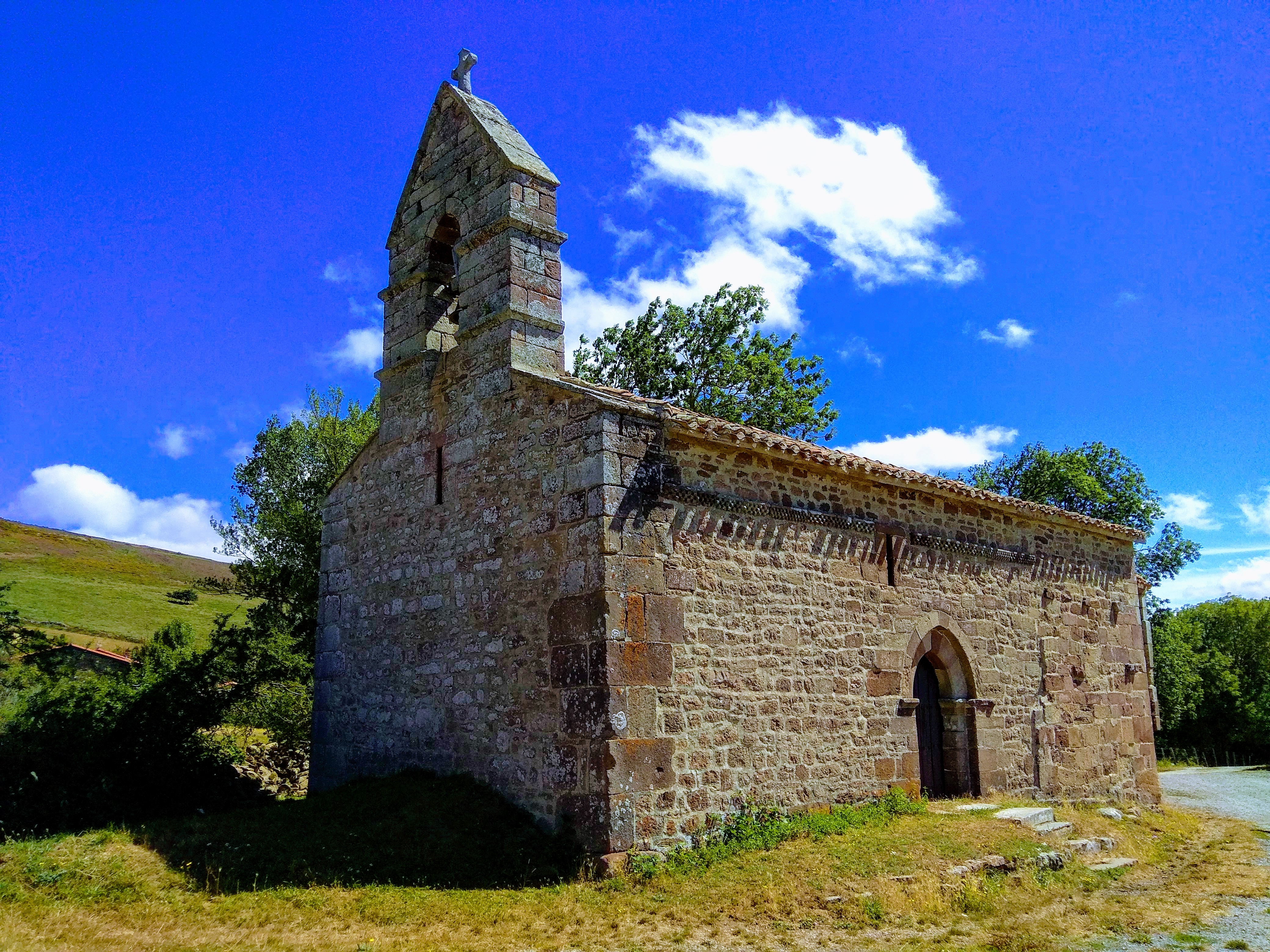 Romanesque hermitage of San Miguel de Olea, in the municipality of Valdeolea (Cantabria, Spain). XII century.